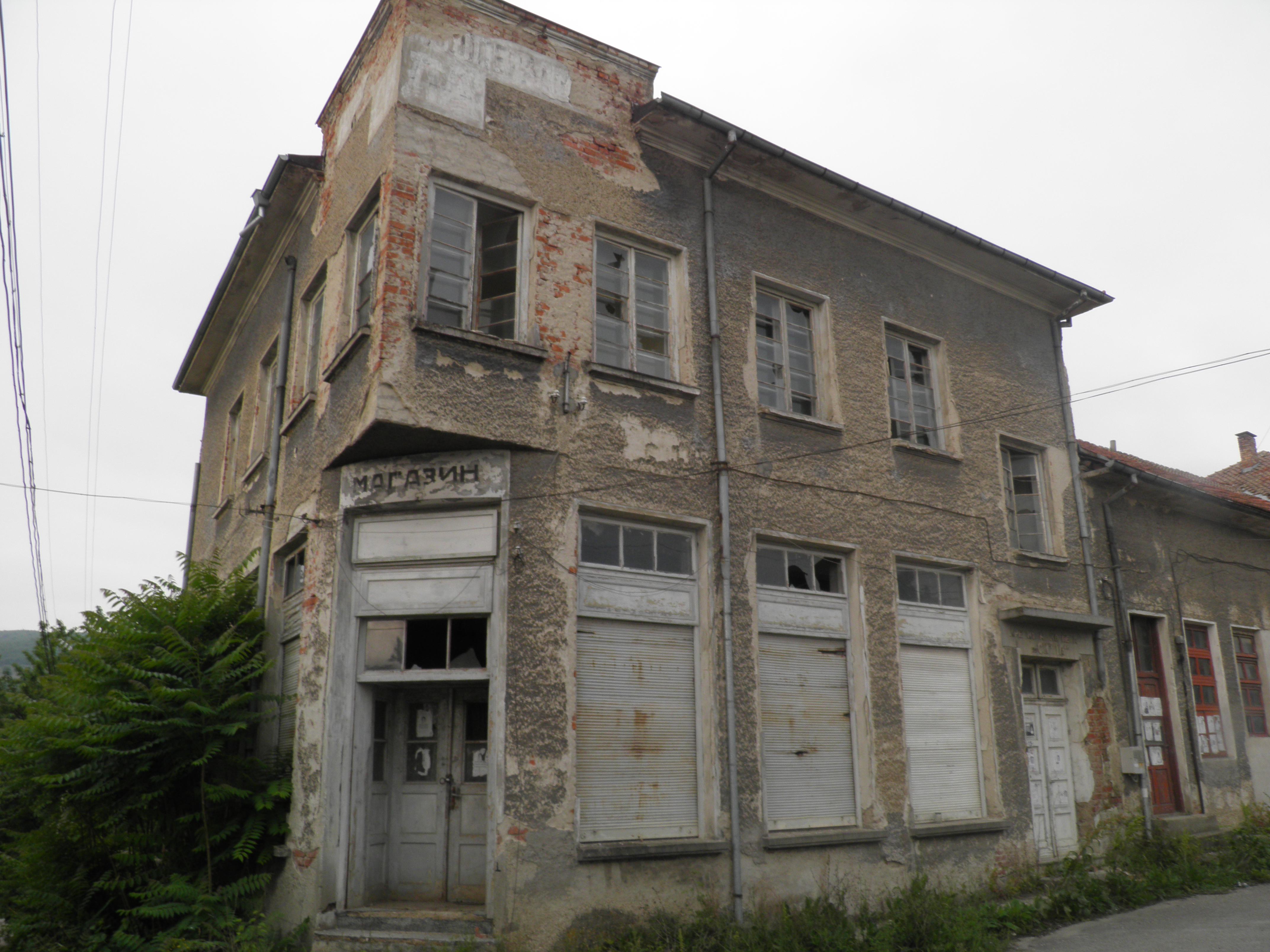 Cooperation Sila,Samovodene,Bulgaria